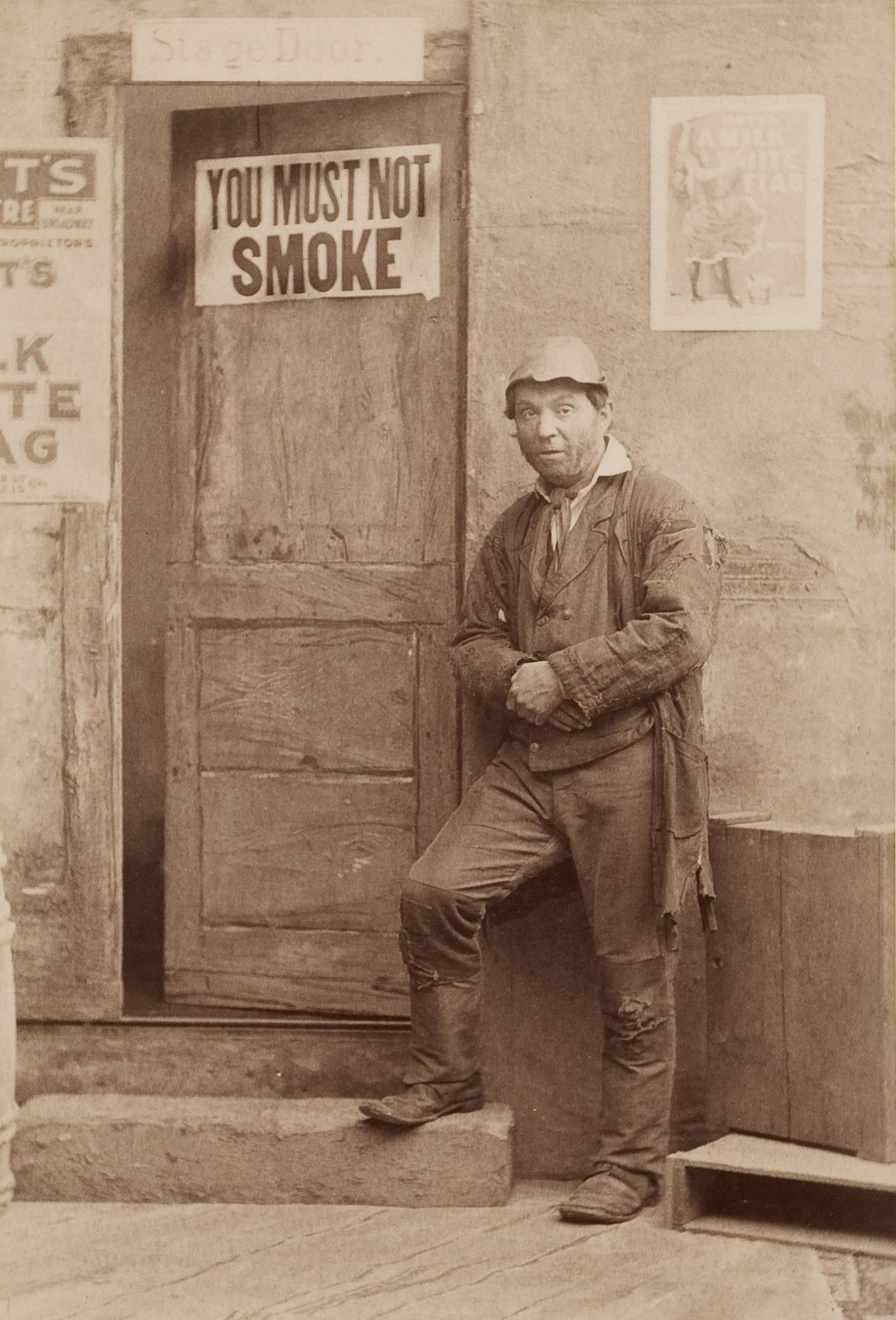 Cabinet card image of American vaudeville actor and art forger Lew Bloom (born Ludwig Pflum, 1859-1929). TCS 1.2687, Harvard Theatre Collection, Harvard University